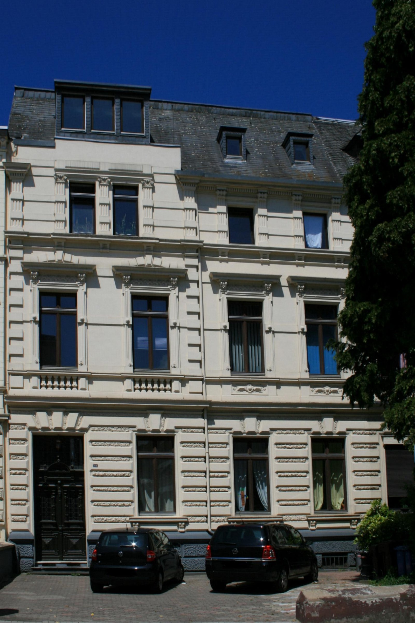 Cultural heritage monument No. R 008 in Mönchengladbach